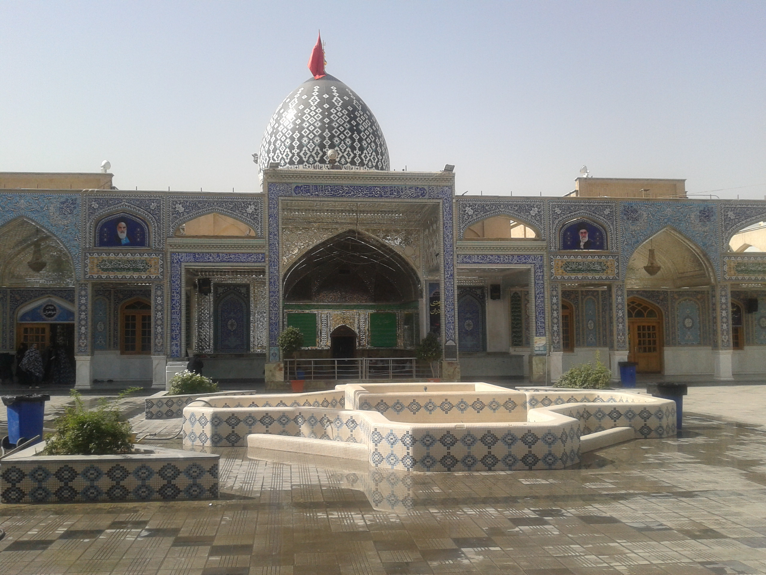 Emamzadeh hasan, Tehran, iran